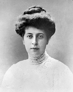 Margarita Kirillovna Morozova — Russian philantropist, patron of Arts, publisher, editor, author and memoirist